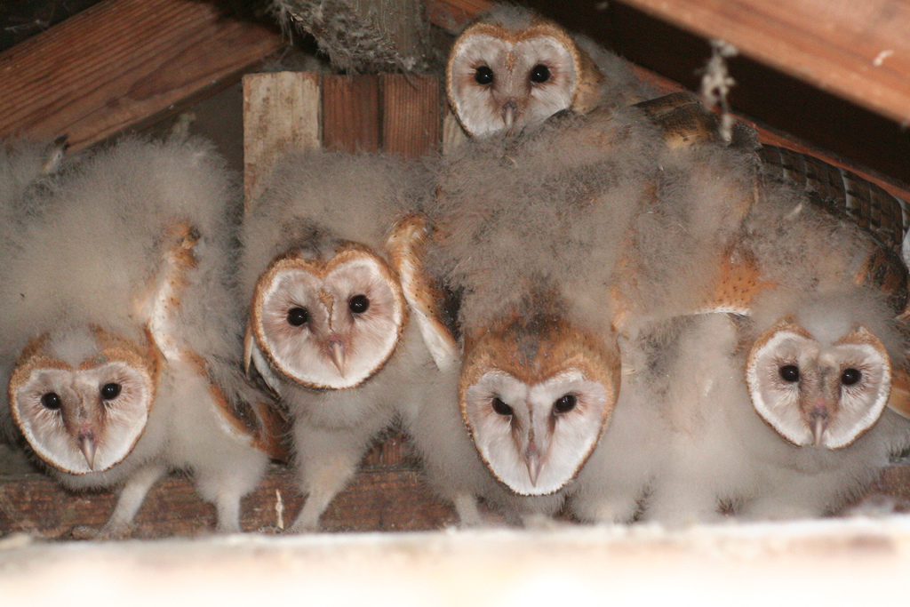 A friend had a nest of American Barn Owls on their property at Rainbow, California ... Needless to say, I took advantage of this rare event.